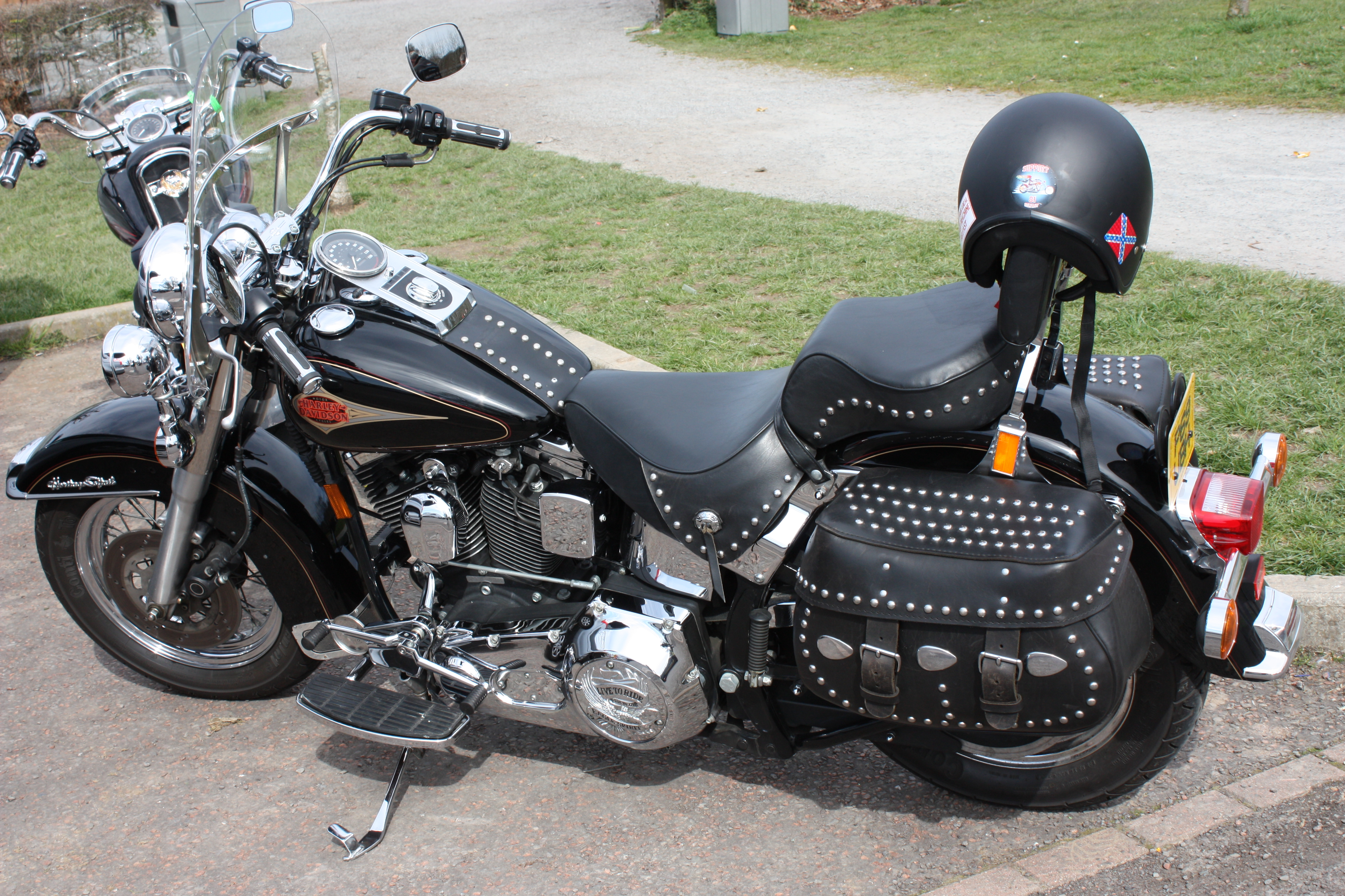 Harley-Davidson Heritage Softail, Delamont Country Park, Killyleagh, County Down, Northern Ireland, April 2010